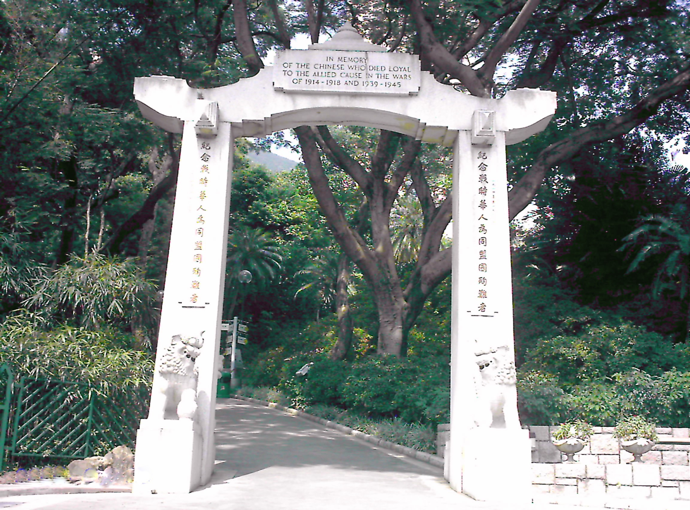 Memorial Gate for British Chinese Solders, Hong Kong Zoological and Botanical Gardens 中文（香港）: 香港動植物公園：為紀念戰死華籍英軍而豎立的牌檔。